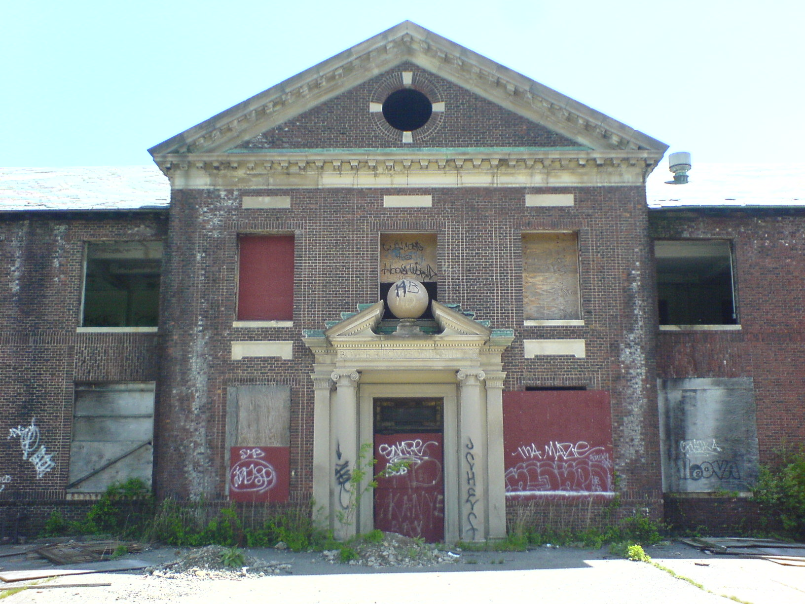 Boyce Thompson Institute for Plant Research Main Entrance. 40.97246° -73.88226° This old facility in Yonkers, New York is currently abandoned. The institute has relocated to Ithaca, New York.